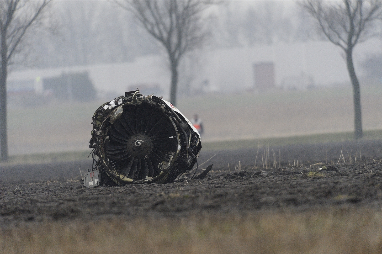 Crash site of Turkish Airlines Flight 1951, Boeing 737-8F2 (TC-JGE, "Tekirdağ"), at Schiphol Airport, near Amsterdam, The Netherlands. 25 February 2009; Copyright Fred Vloo / RNW